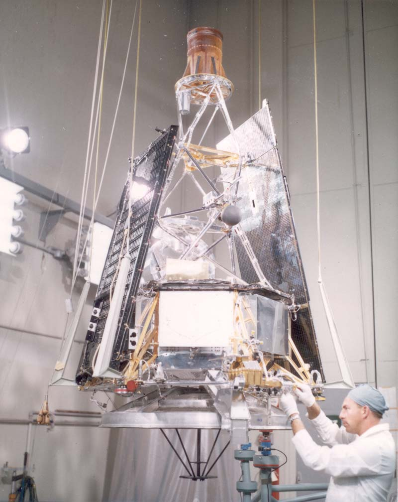 A Mariner 2 team member gives a final check to the Mariner 2 spacecraft in one of the highbays.